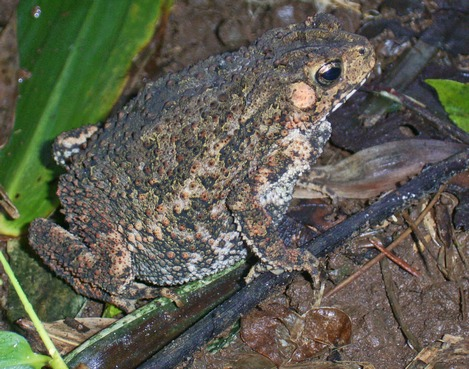 Bufo biporcatus from Situgede, Bogor, West Java, Indonesia